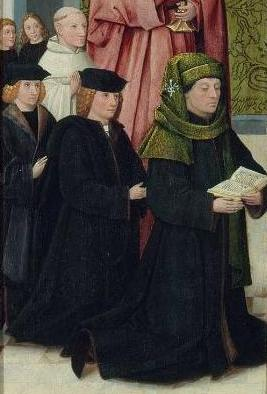 Franco van Langel and his five sons.